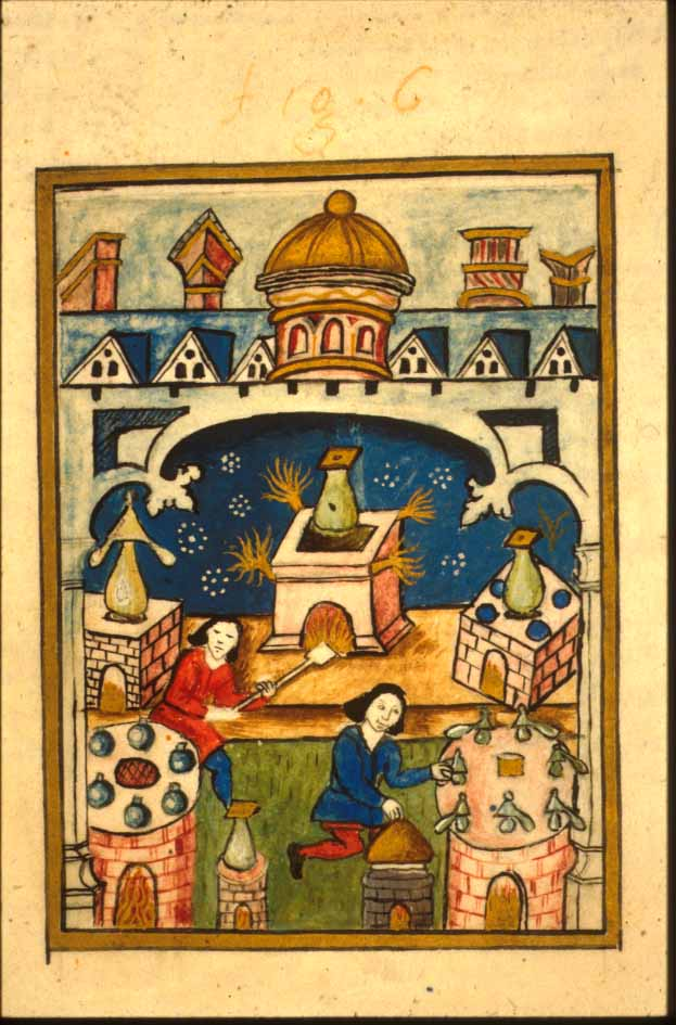 Opening (facing p.41) from Thomas Norton The Ordinall of Alchemy England: c.1550-1600 MS Ferguson 191